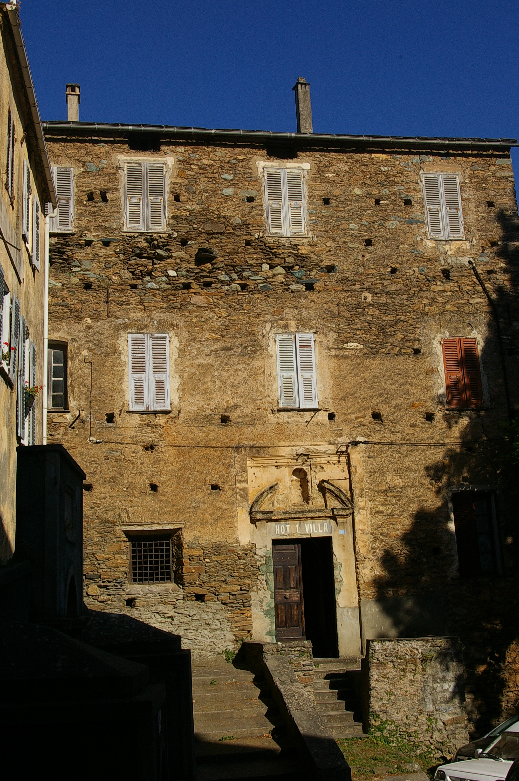 Ex-hotel Villa in Stazzona, Corsica